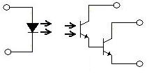 Darlington transistor coupler